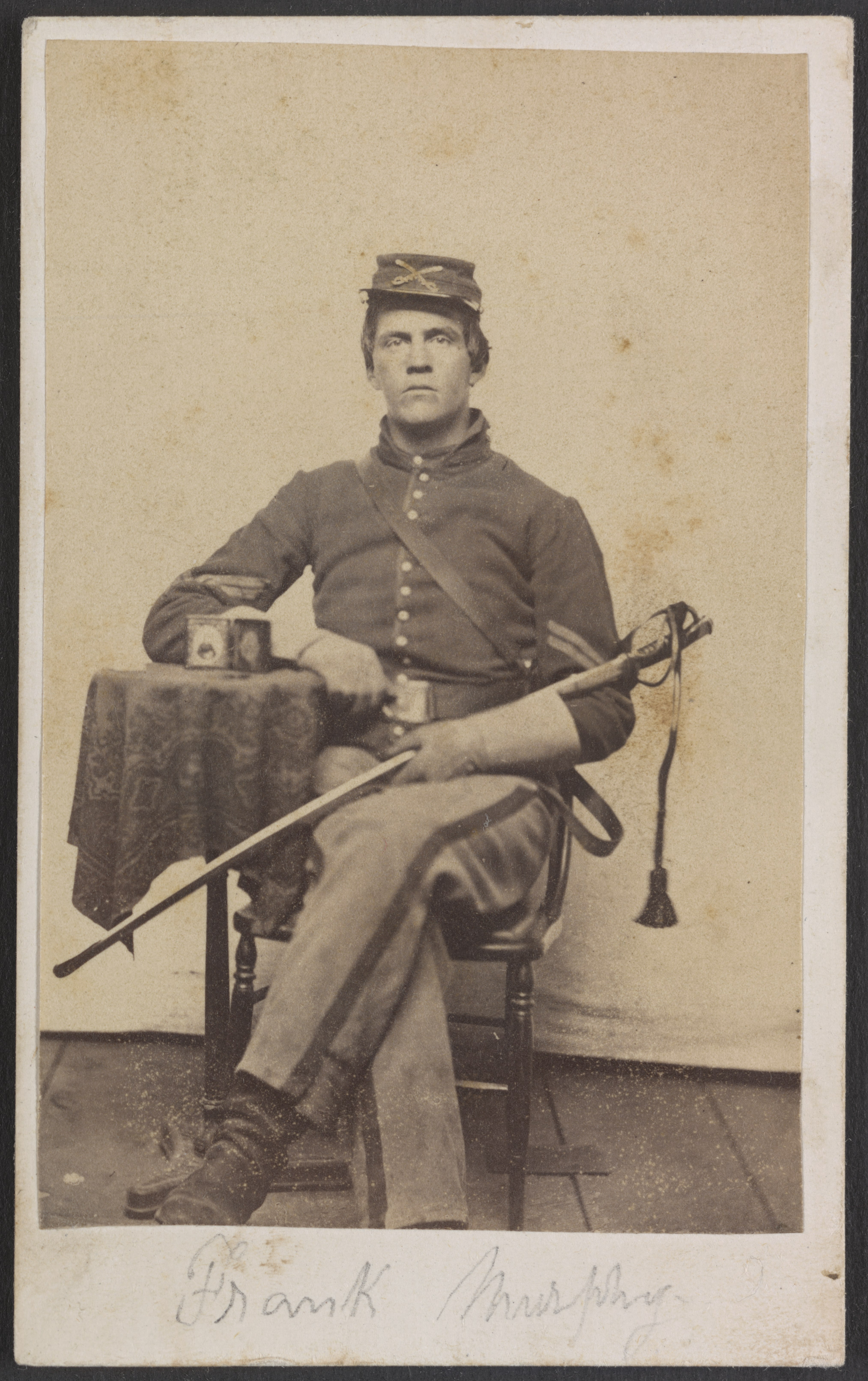 Title: Private Frank H. Murphy of Co. B, 17th Pennsylvania Cavalry Regiment, in uniform with saber and cased photograph of a woman Abstract/medium: 1 photographic print on carte de visite mount : albumen ; 10.0 x 6.2 cm (mount)